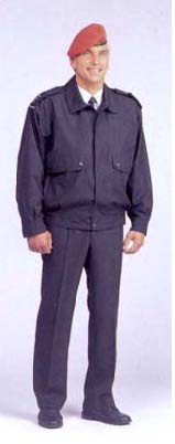 Service Dress of the German Armed Forces (Bundeswehr) (Heer) with blouson